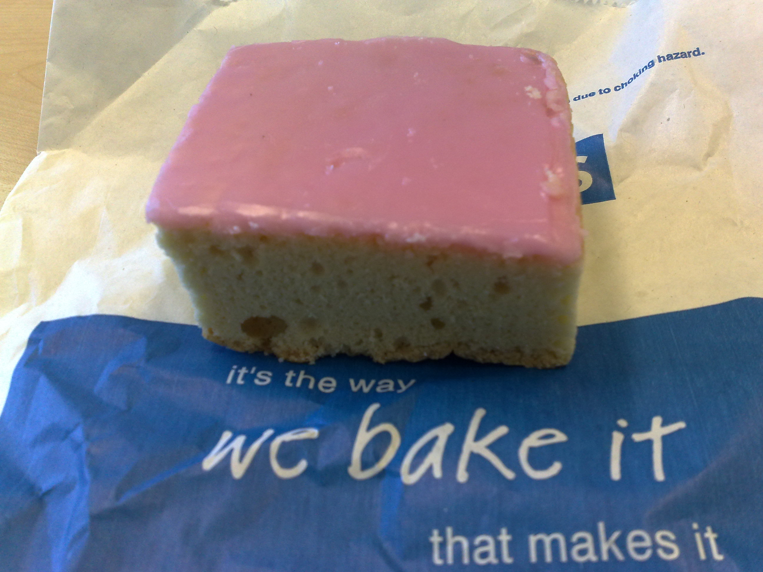 also known as tottenham squares, apparently.